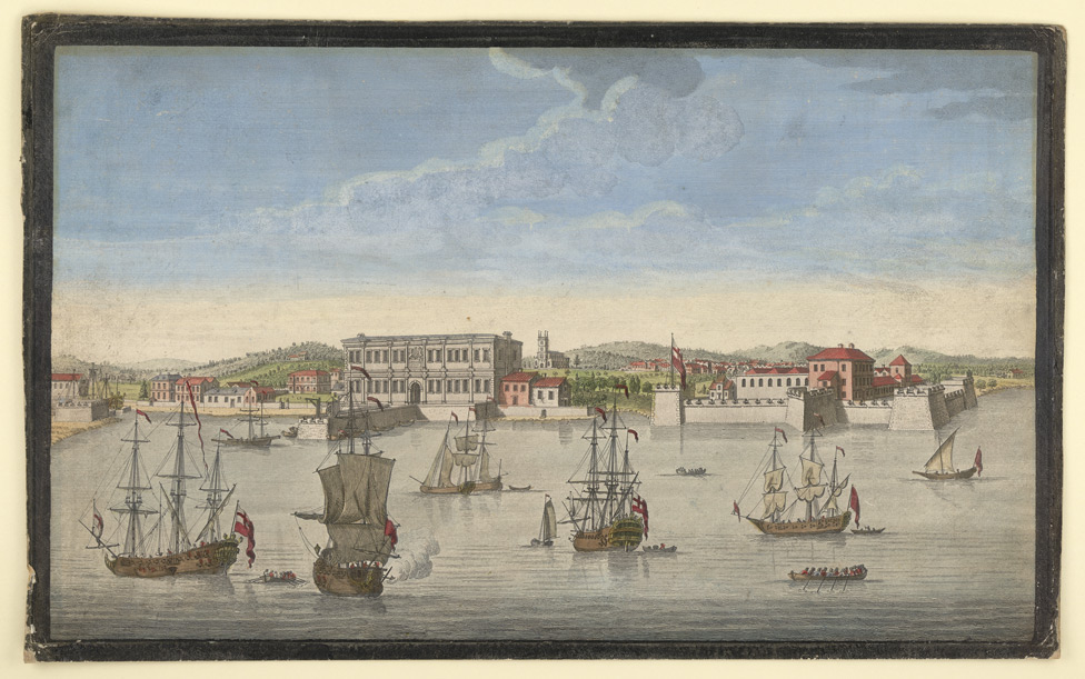 'Bombay on the Malabar Coast belonging to the East India Company of England'. Published in London in 1754 by Robert Sayer. In this view, we can see the custom house, the Church of St Thomas and the flagstaff of Bombay (later Mumbai)